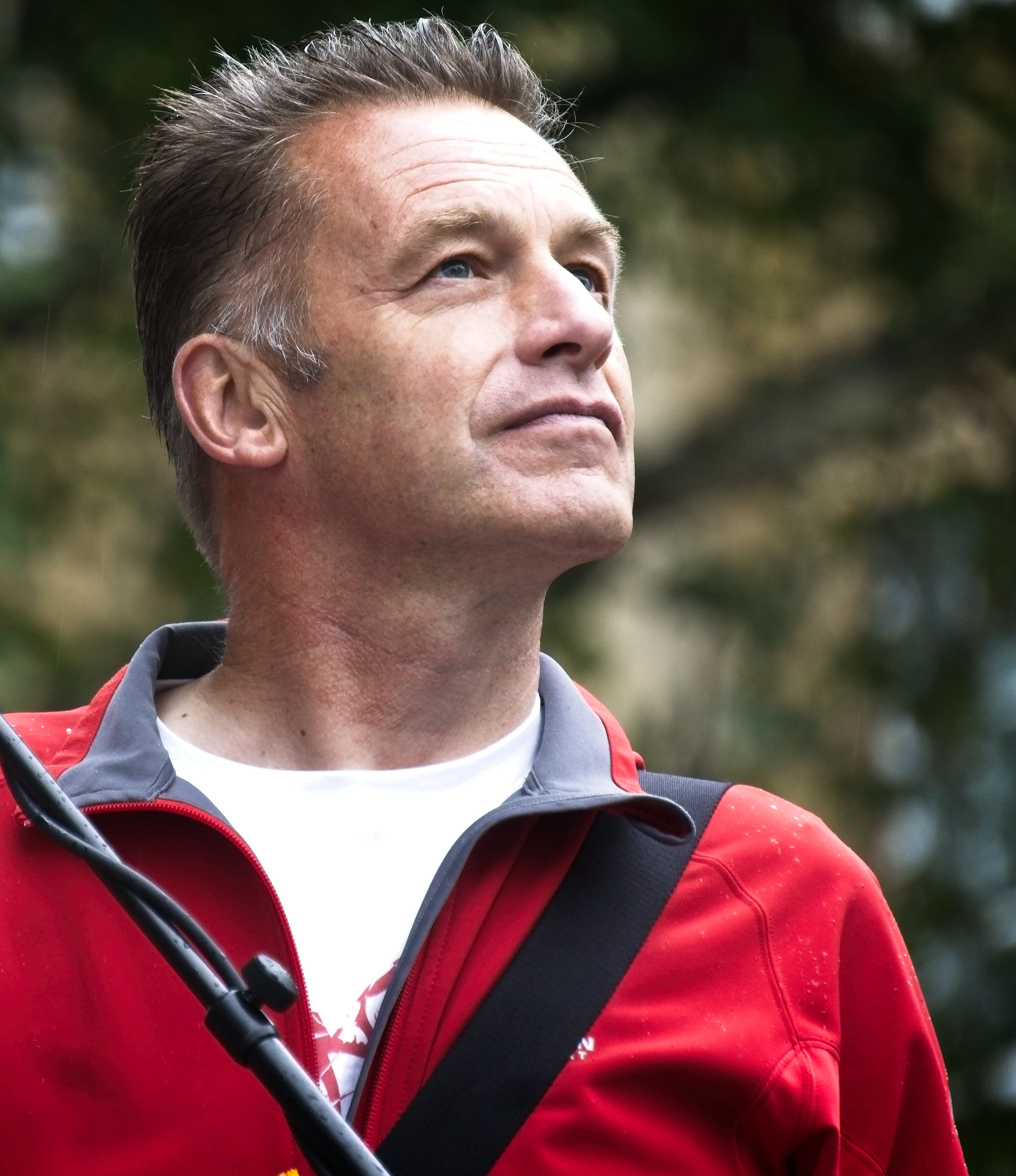 Photos taken at the rally after the People's Walk for Wildlife, at Richmond Terrace, Whitehall, London on Saturday 22nd September 2018. Naturalist, writer, and TV presenter Chris Packham starts the speeches at the rally.